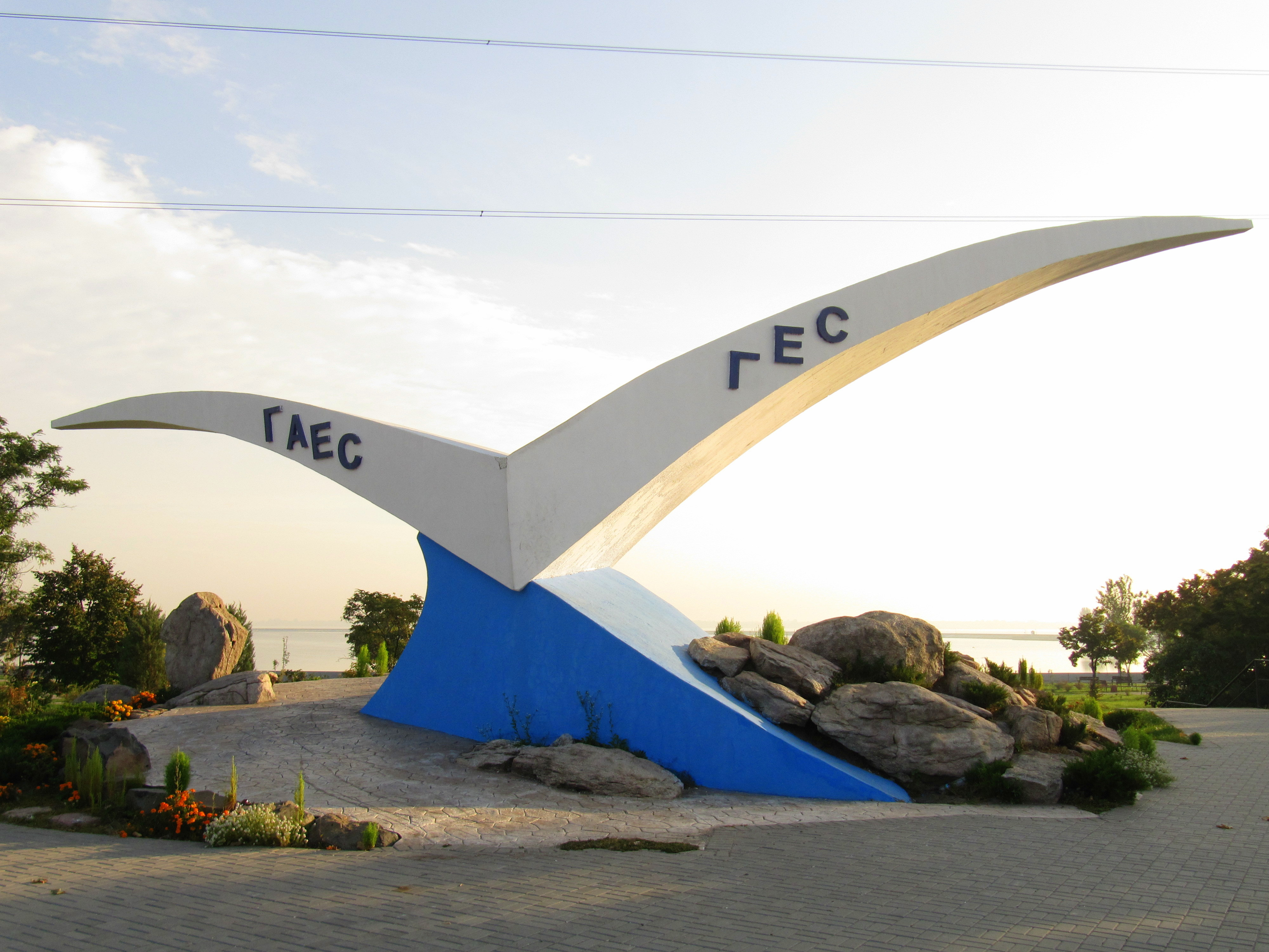 Ukraine, Vyshhorod. Monument to Kyiv HEP and PSHEP.